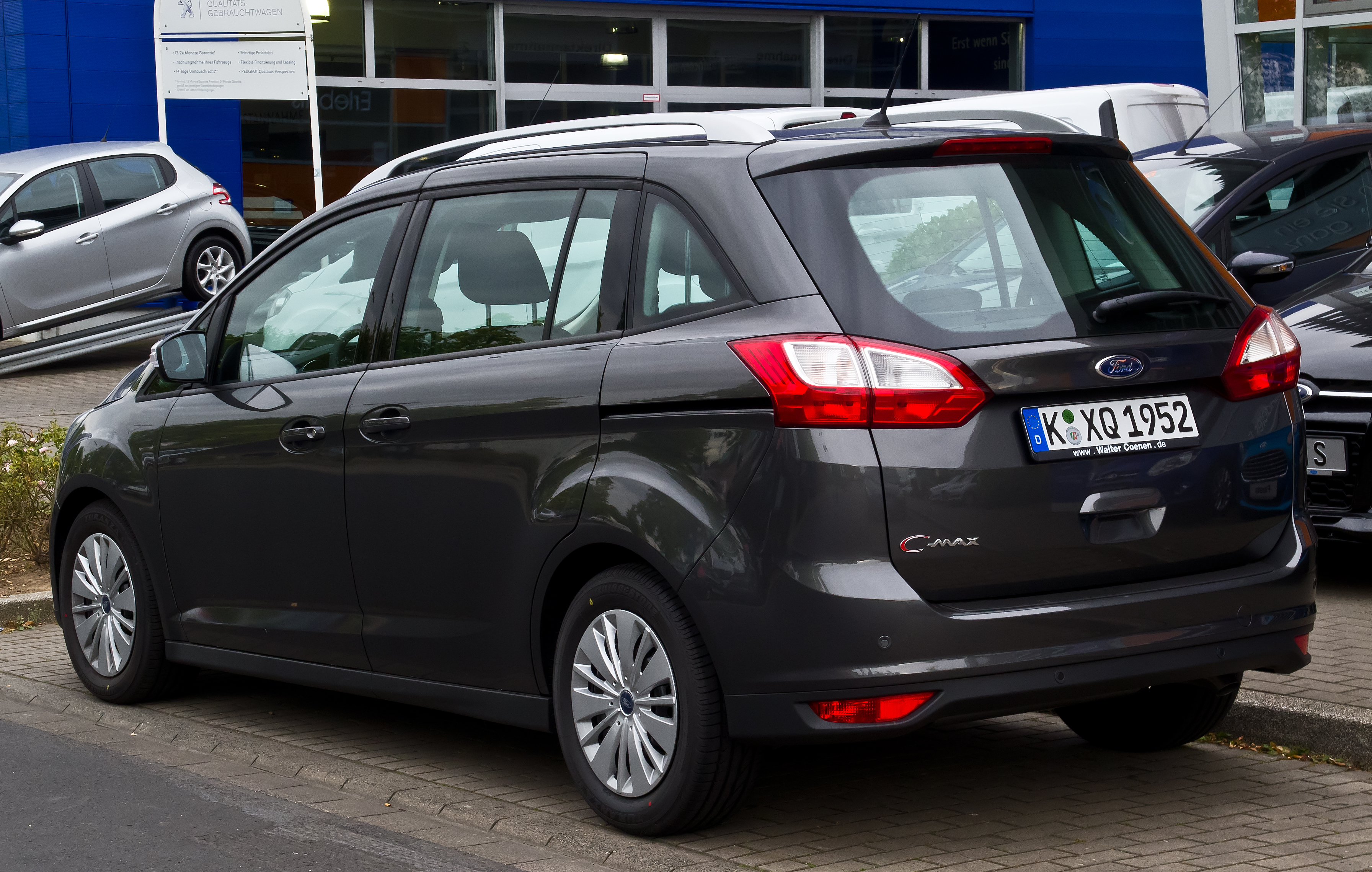 Ford Grand C-Max Trend (II, Facelift)